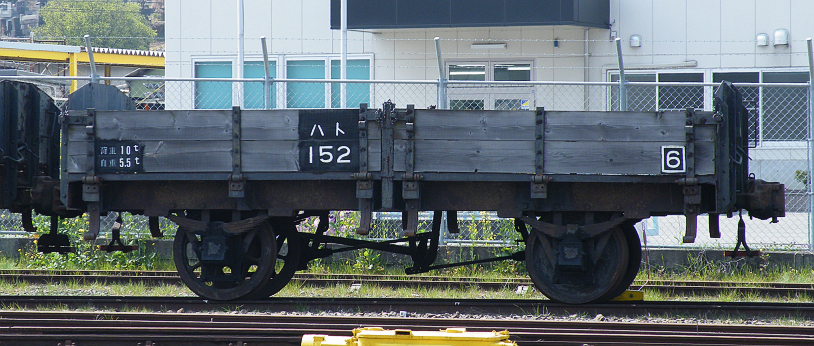 Freight car type HATO of Miike Railway, Omuta city, Fukuoka, Japan.